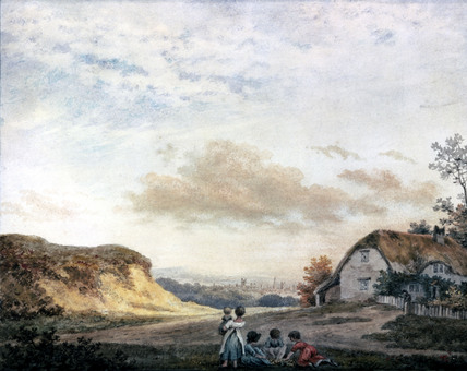 Watercolour by landscape artist Edward Kennion, based on a cloud study by Luke Howard